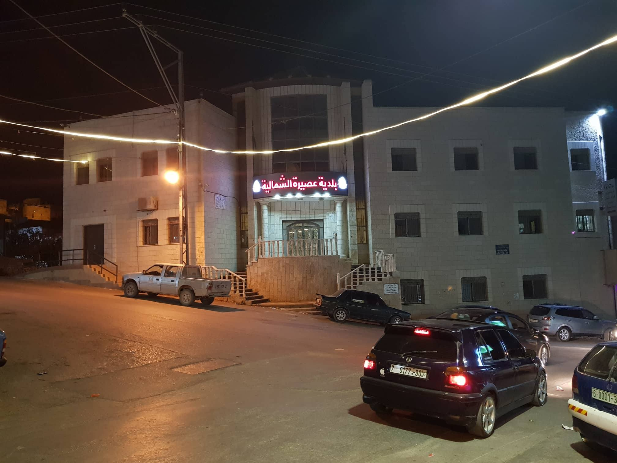 Municipality of Asira al Shamaliya at night.